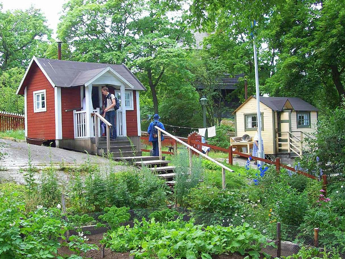 The allotment with the red hut shows how common vegetables were grown in the 1920s.